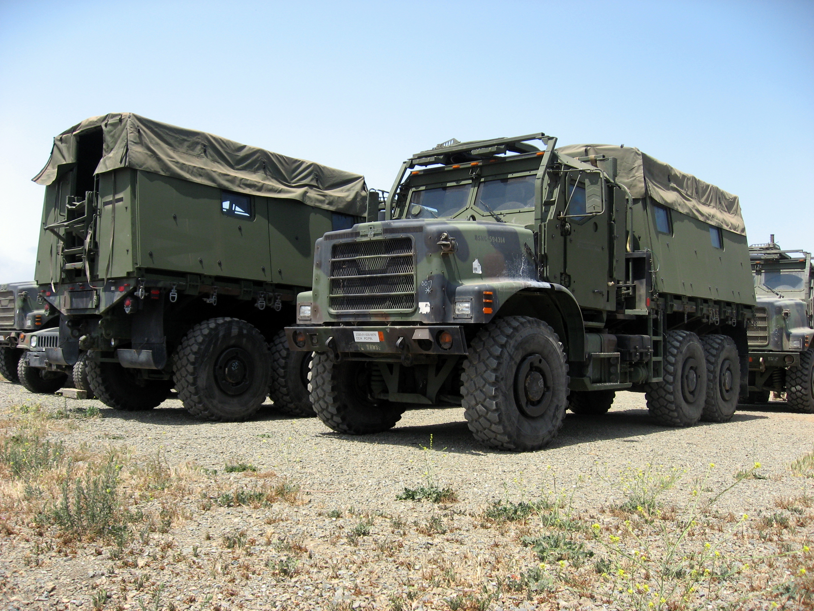 MTVR's fitted with MAS armor and armored troop carriers at Camp Pendleton, California. Picture taken by Patrick Smith. Flickr Gallery